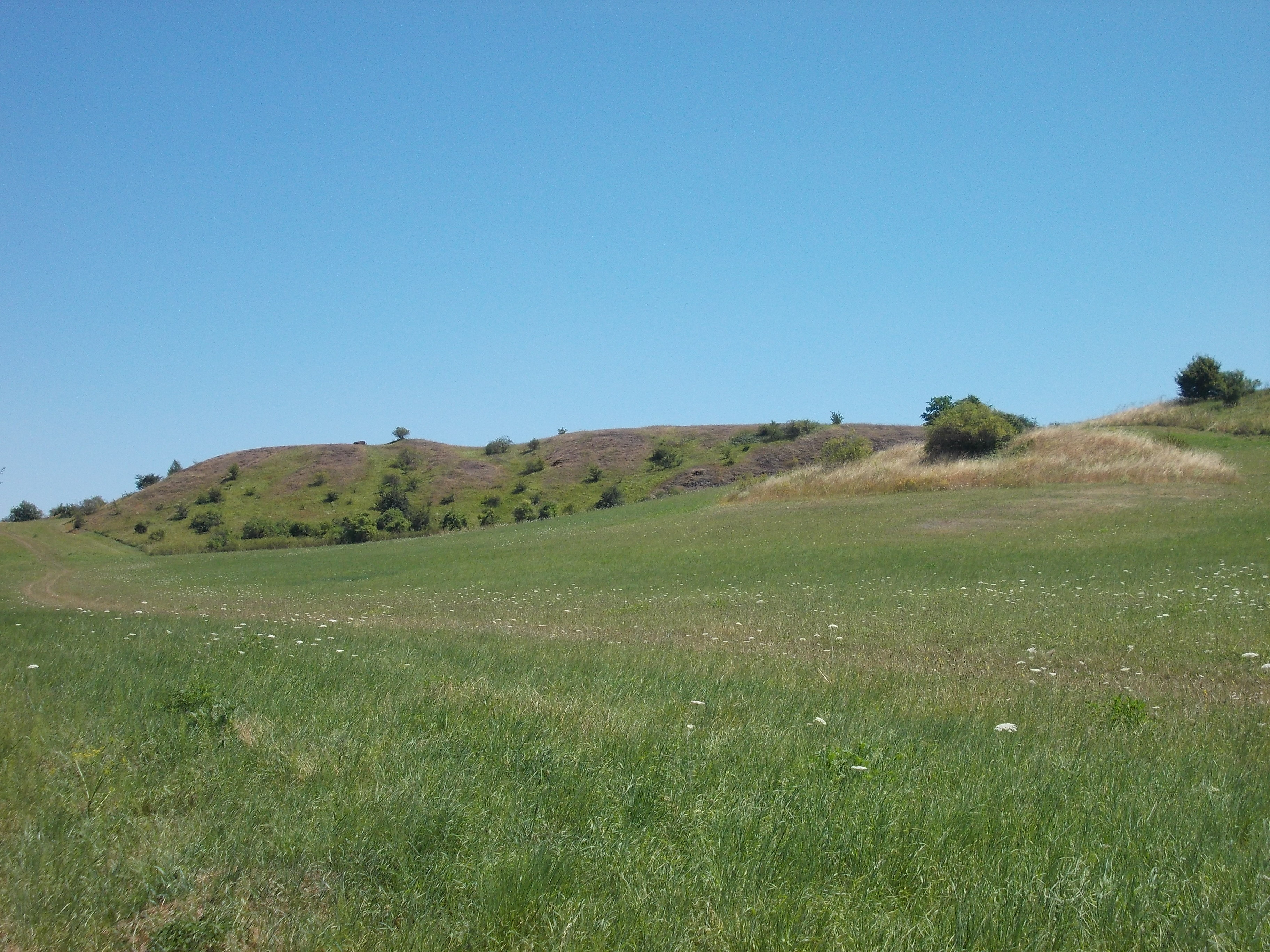 Lunzberge nature reserve near Lettin (Halle/Saale, Saxony-Anhalt)